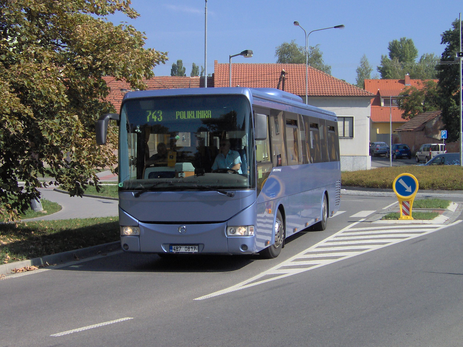 Irisbus Crossway bus in Vyškov